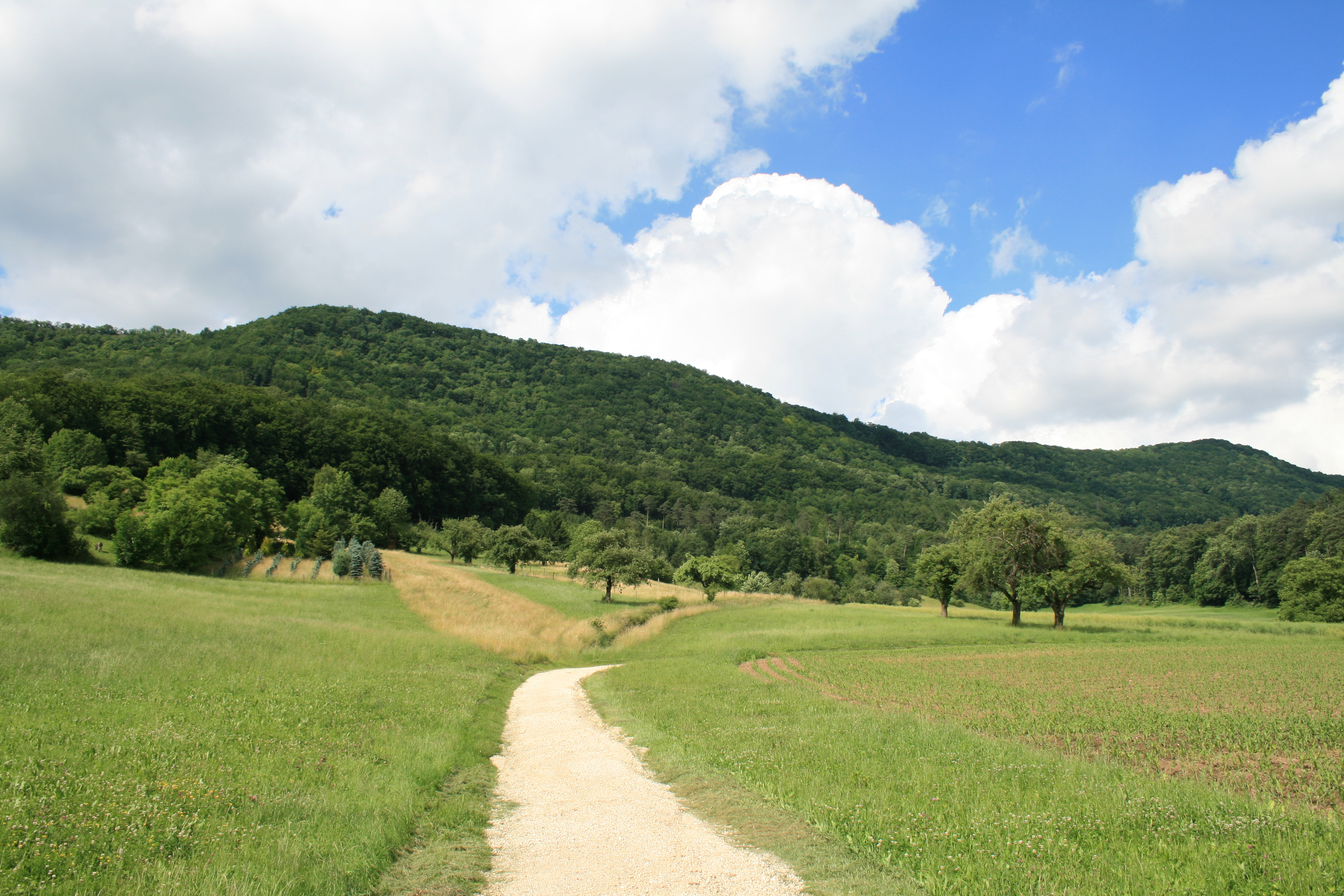 Lägern